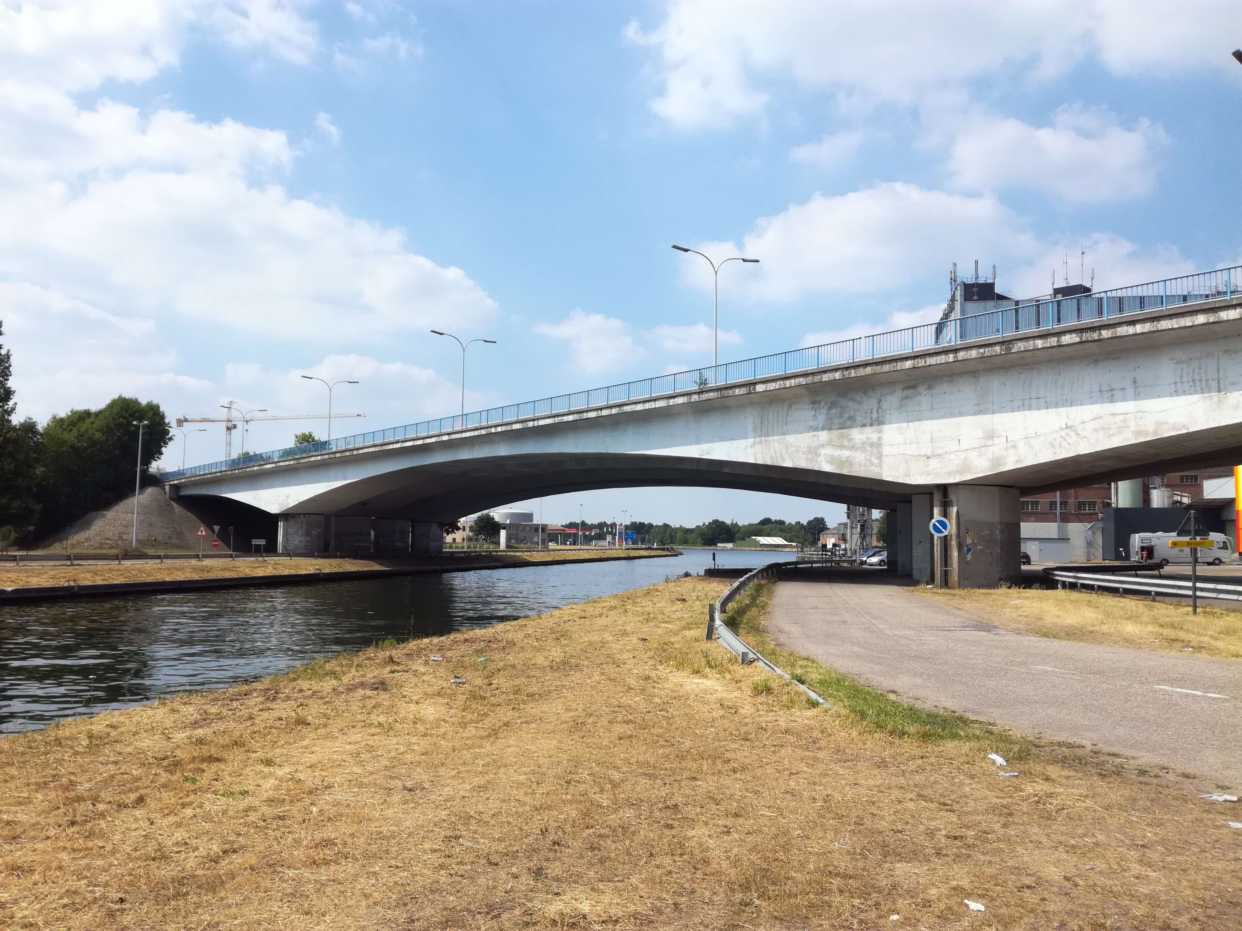 Bridge over Kanaalkom in Hasselt